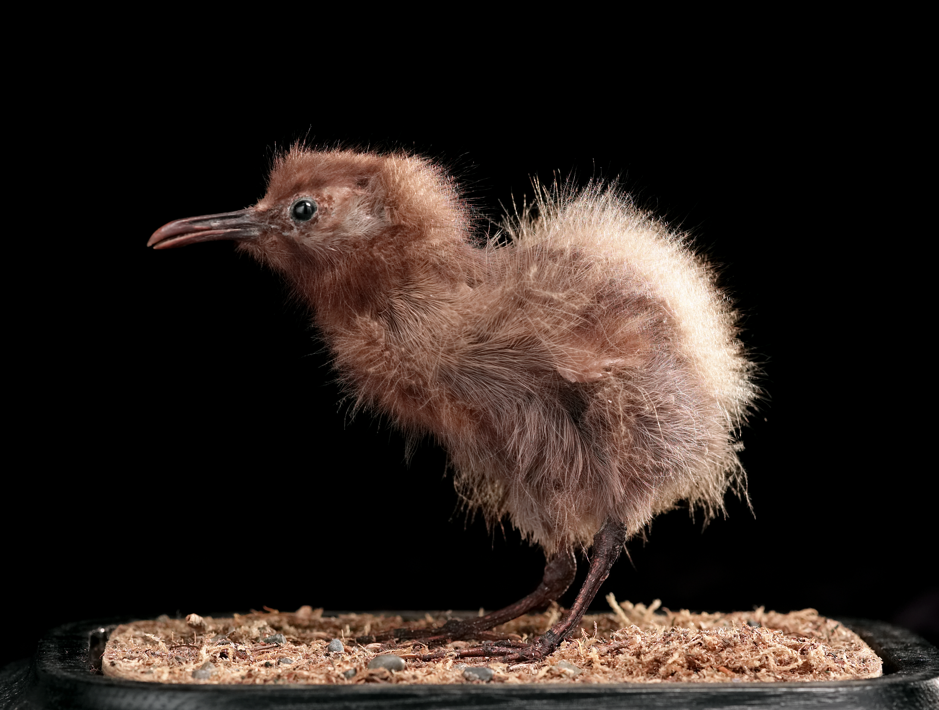 Chatham Island Rail, Cabalus modestus (Hutton, 1872), collected January 1872, Mangere Island (Pitt Island), New Zealand. Purchased 1923. CC BY 4.0. Te Papa (OR.001371)